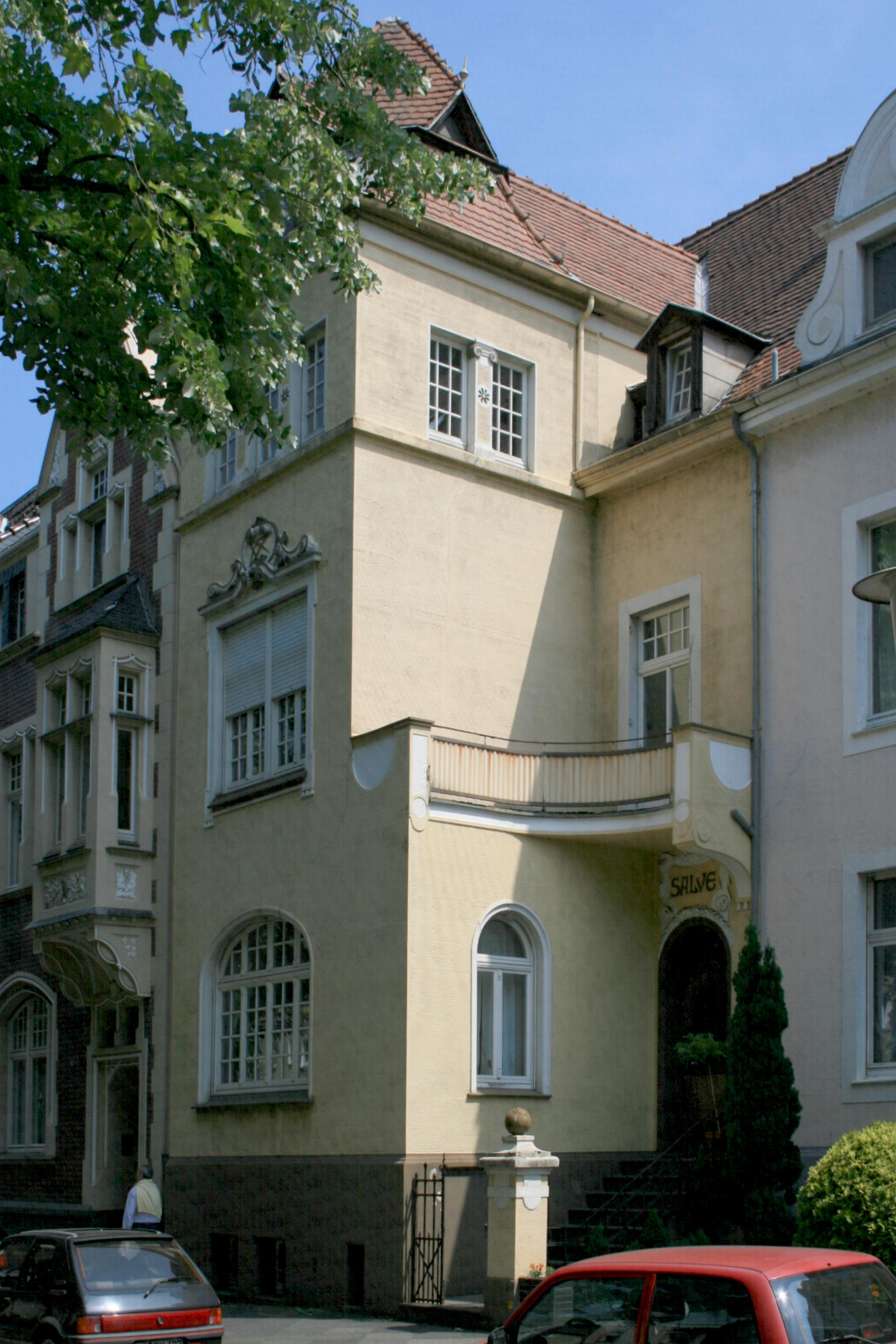 Cultural heritage monument No. B 097 in Mönchengladbach